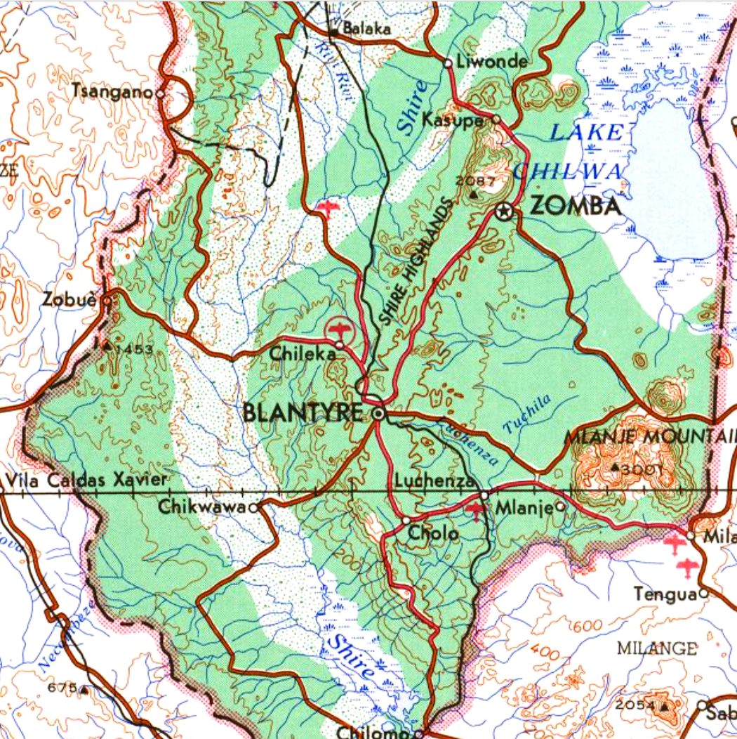 1970 map of southern Malawi, showing the Shire Highlands and Mulanje Plateau, US Army Map Service